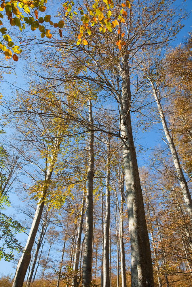 Boatin reserve